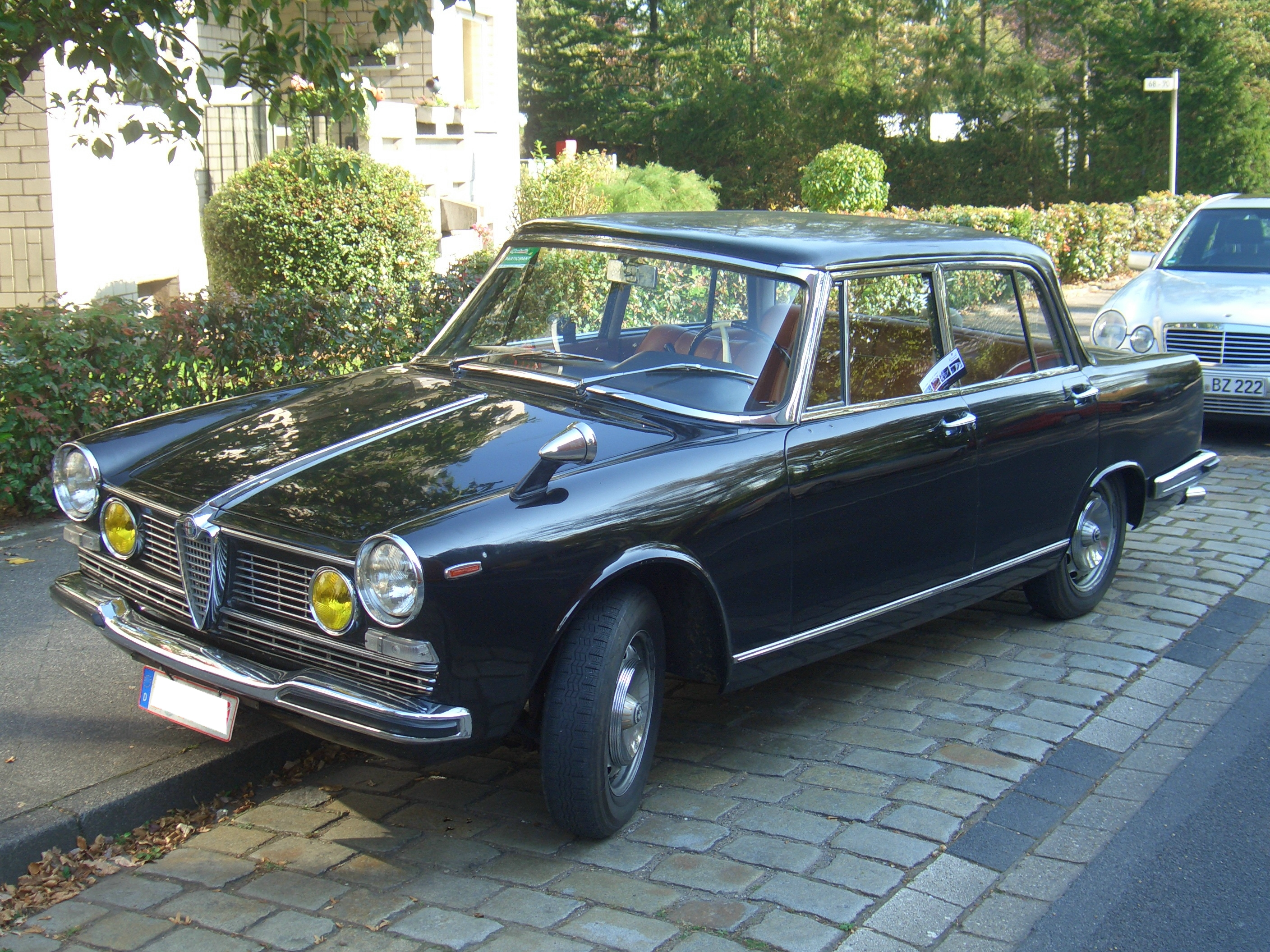 Alfa Romeo 2600 Berlina, seen in Dusseldorf, Germany